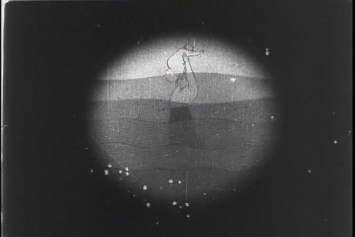 The Sinking of the Lusitania, 1918 film, extracted image